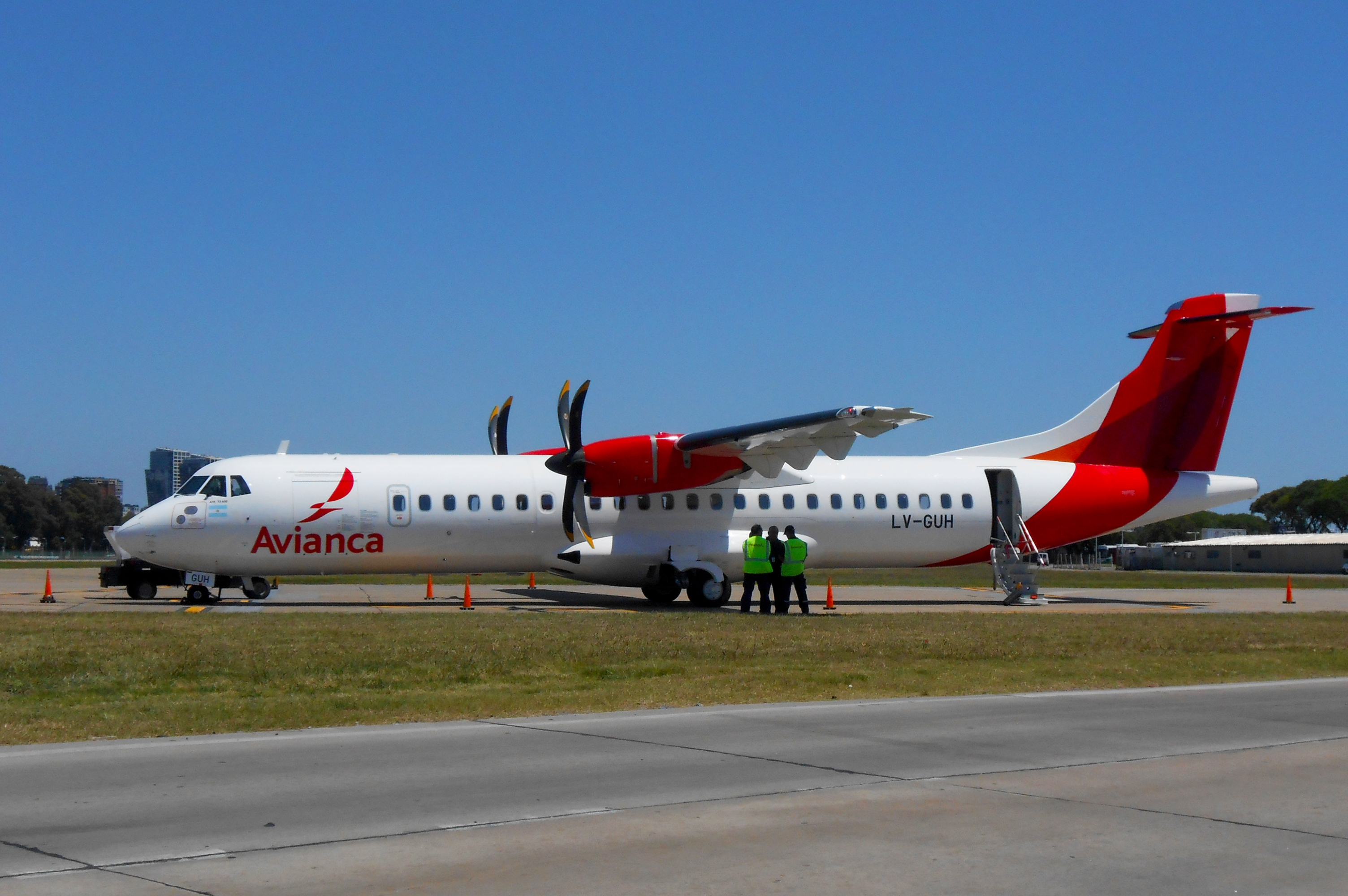 ATR 72-600 Avianca Argentina - Jorge Newbery Airfield, Buenos Aires, Argentina.